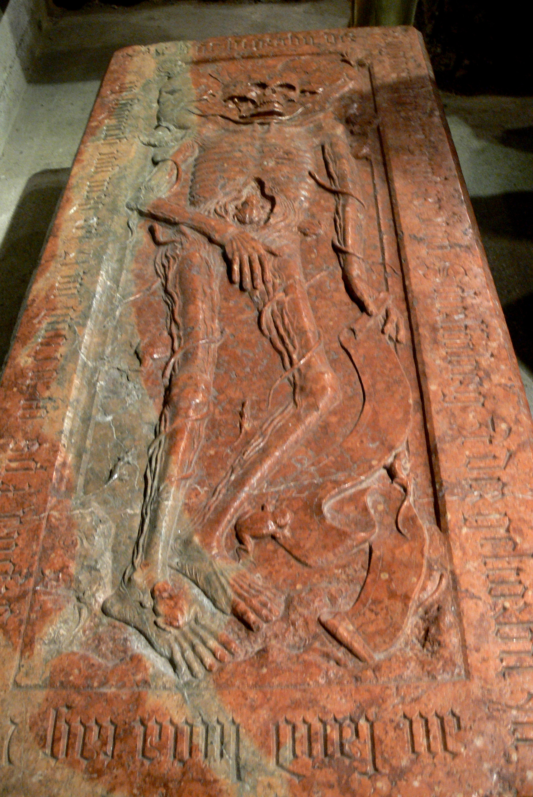 Lorch ( Enns/Upper Austria ). Basilica of Saint Lawrence: Ledger stone on the grave of Bernhard von Scherffenberg ( + 1513 ) in the crypt.